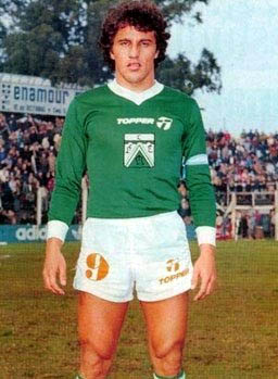 Argentine striker Alberto Márcico with Ferro C. Oeste.